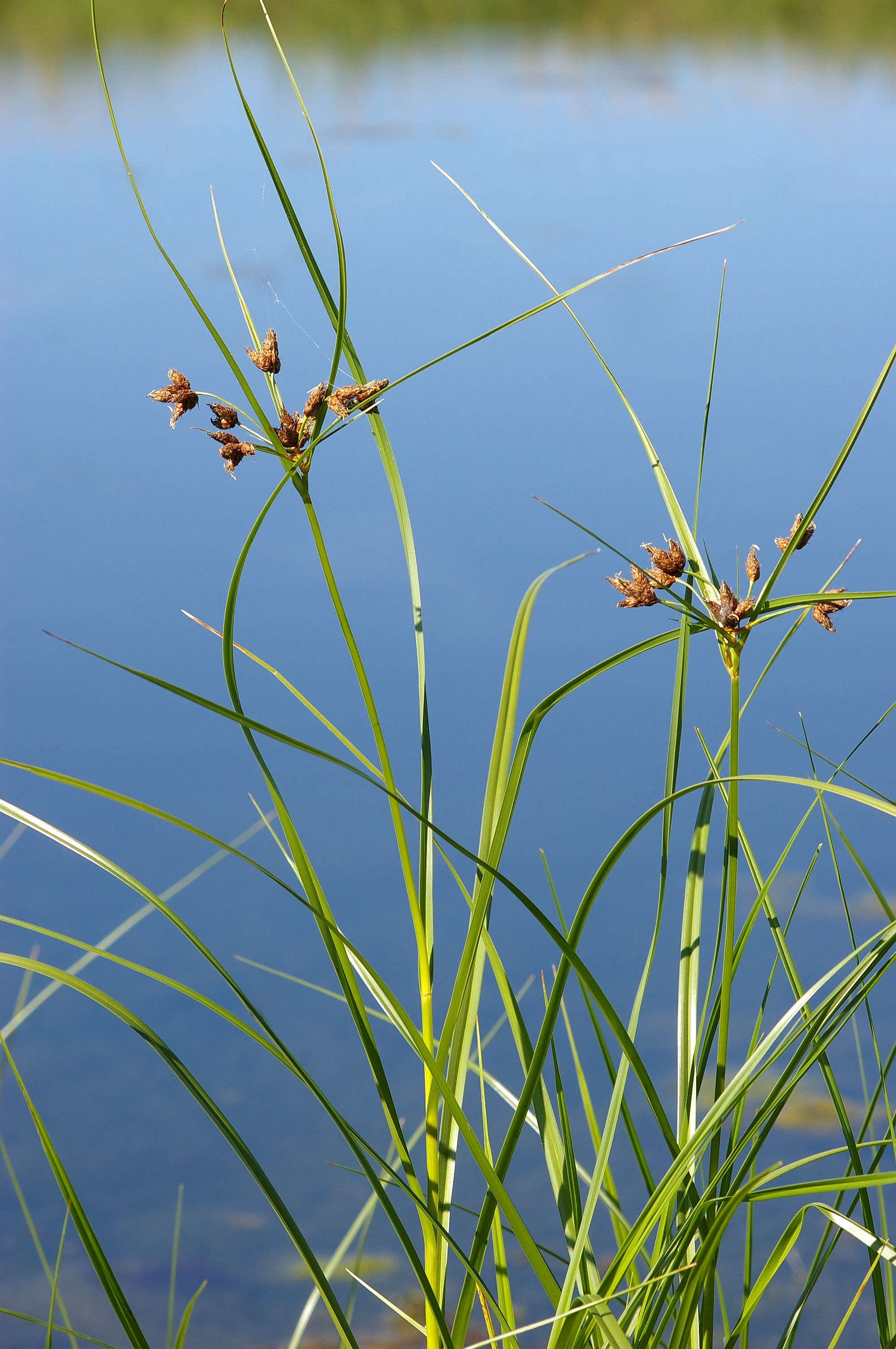 Plant from the complex Bolboschoenus maritimus s.l., probably the species Bolboschoenus laticarpus.